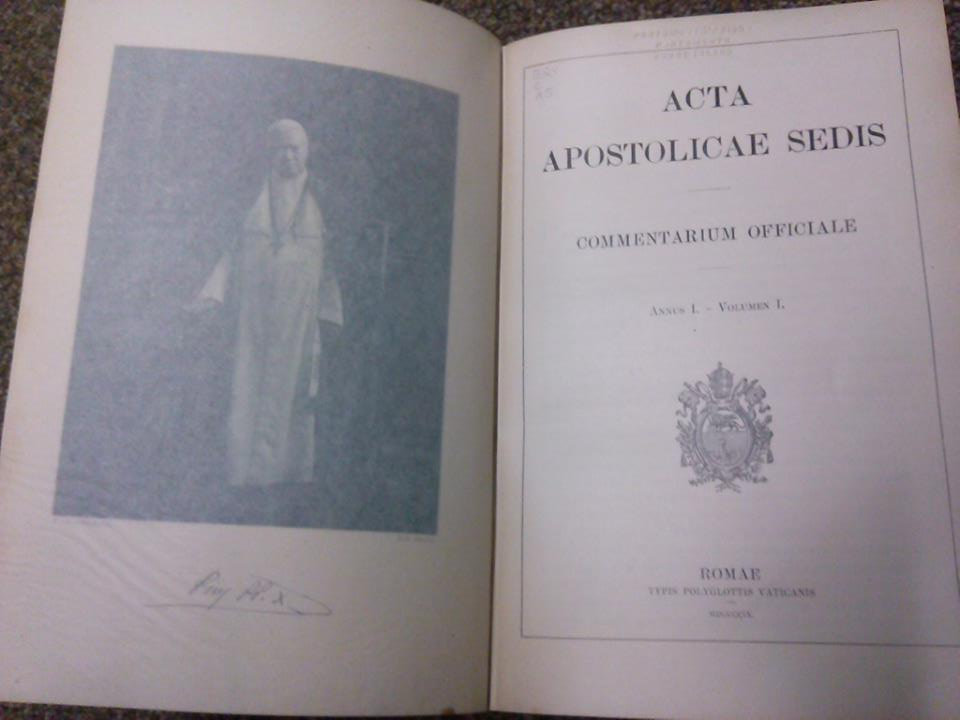 Frontispiece and title-page of Vol. 1 of the «Acta Apostolicae Sedis» (1909)